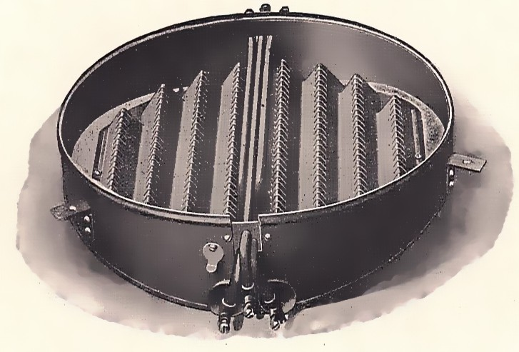 Fig. 132 Gasoline burner for a Stanley steam car boiler Scans from 'The Book of the Motor Car', Rankin Kennedy C.E., 1912 See other images from this source in Scans from 'The Book of the Motor Car'